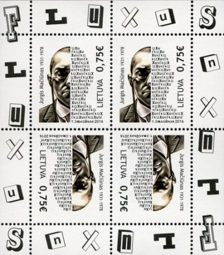 George Maciunas a Lithuanian-American artist.